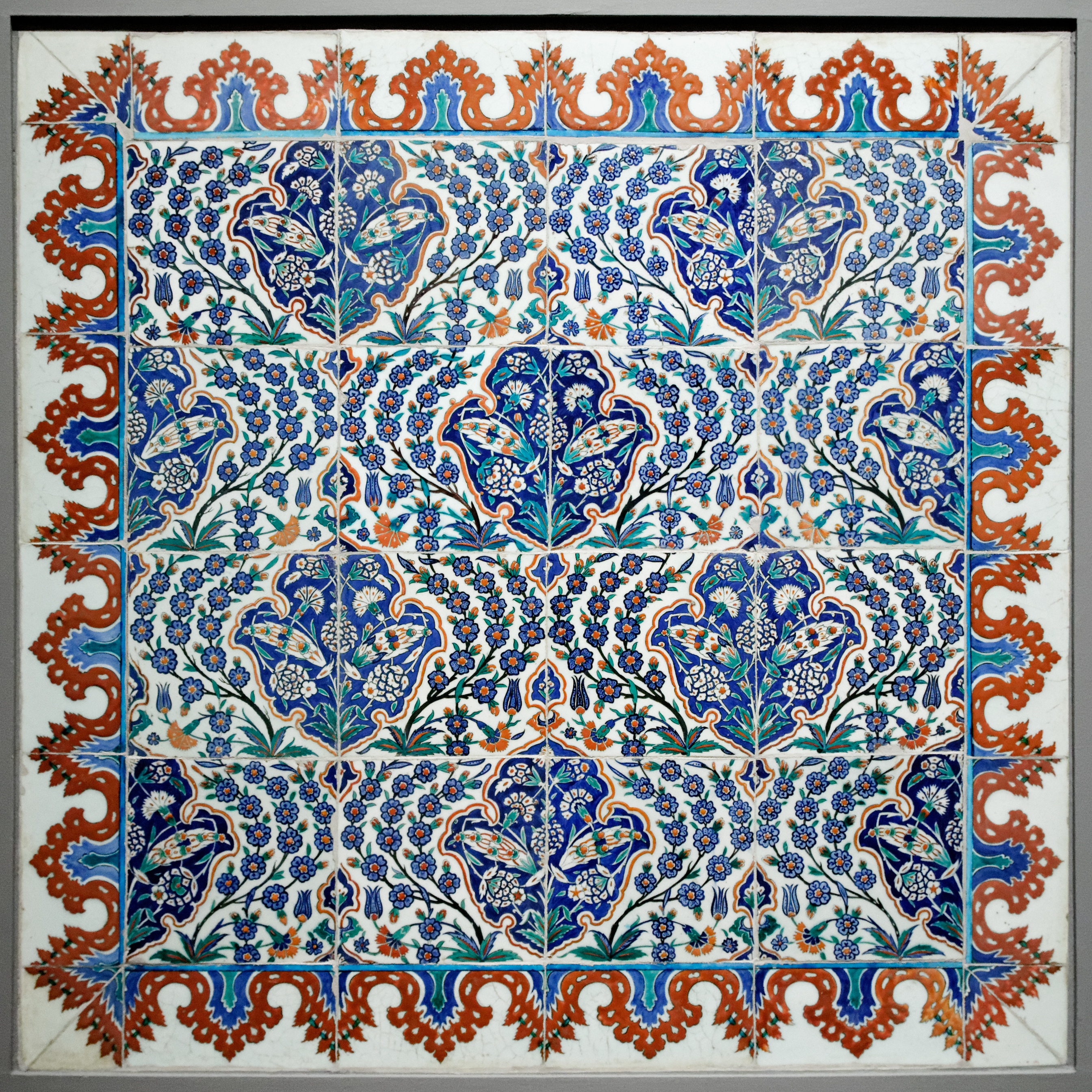 Tile panel.